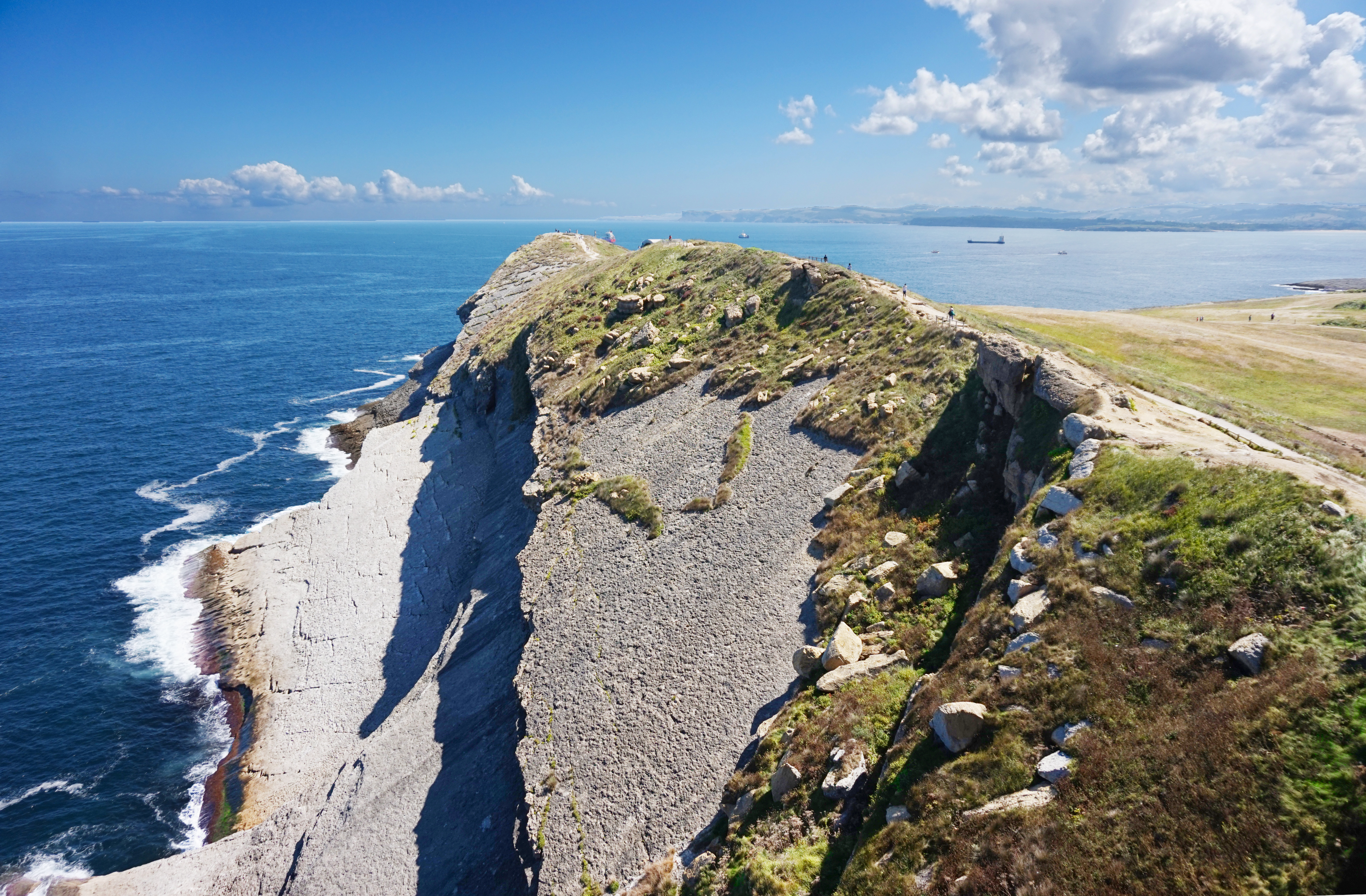 Rock formation near Cabo Mayor in Santander.This photograph was taken with a Sony ILCE-5000